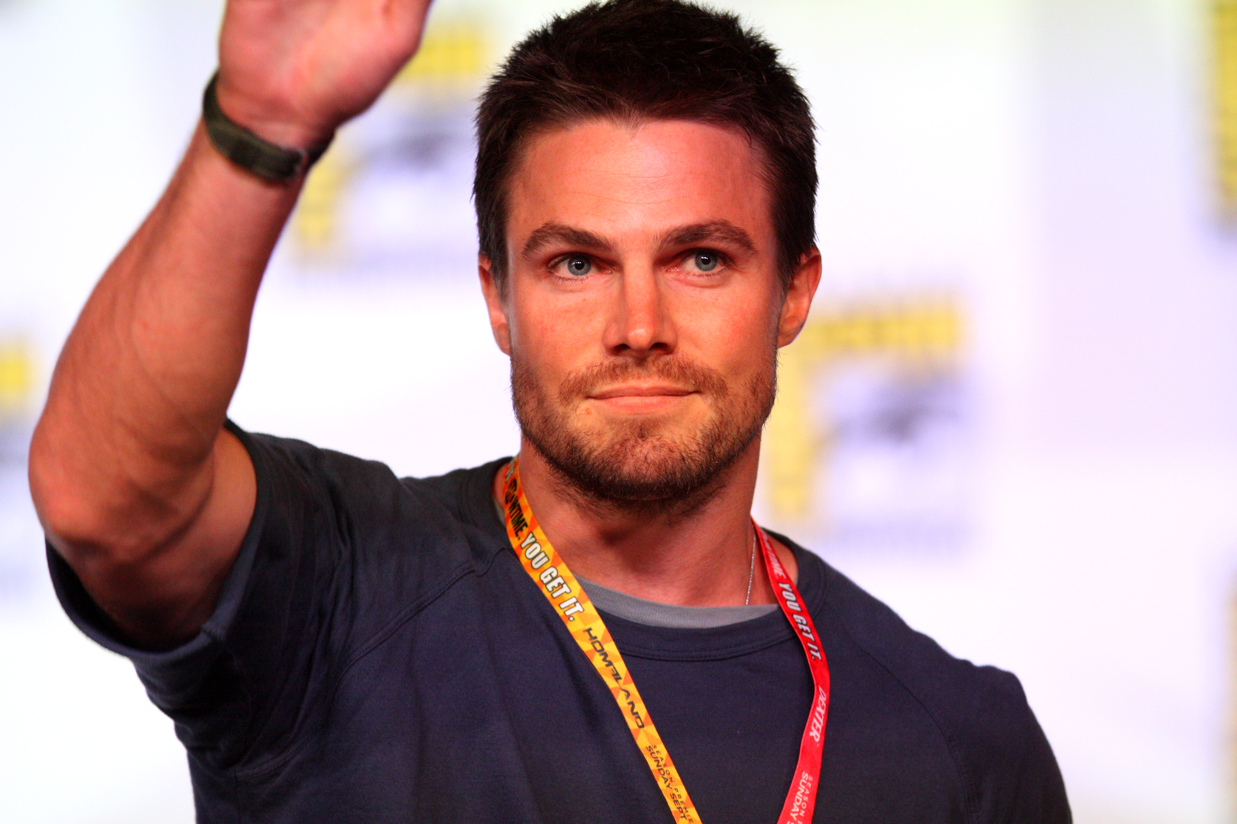 Stephen Amell speaking at the 2012 San Diego Comic-Con International in San Diego, California.